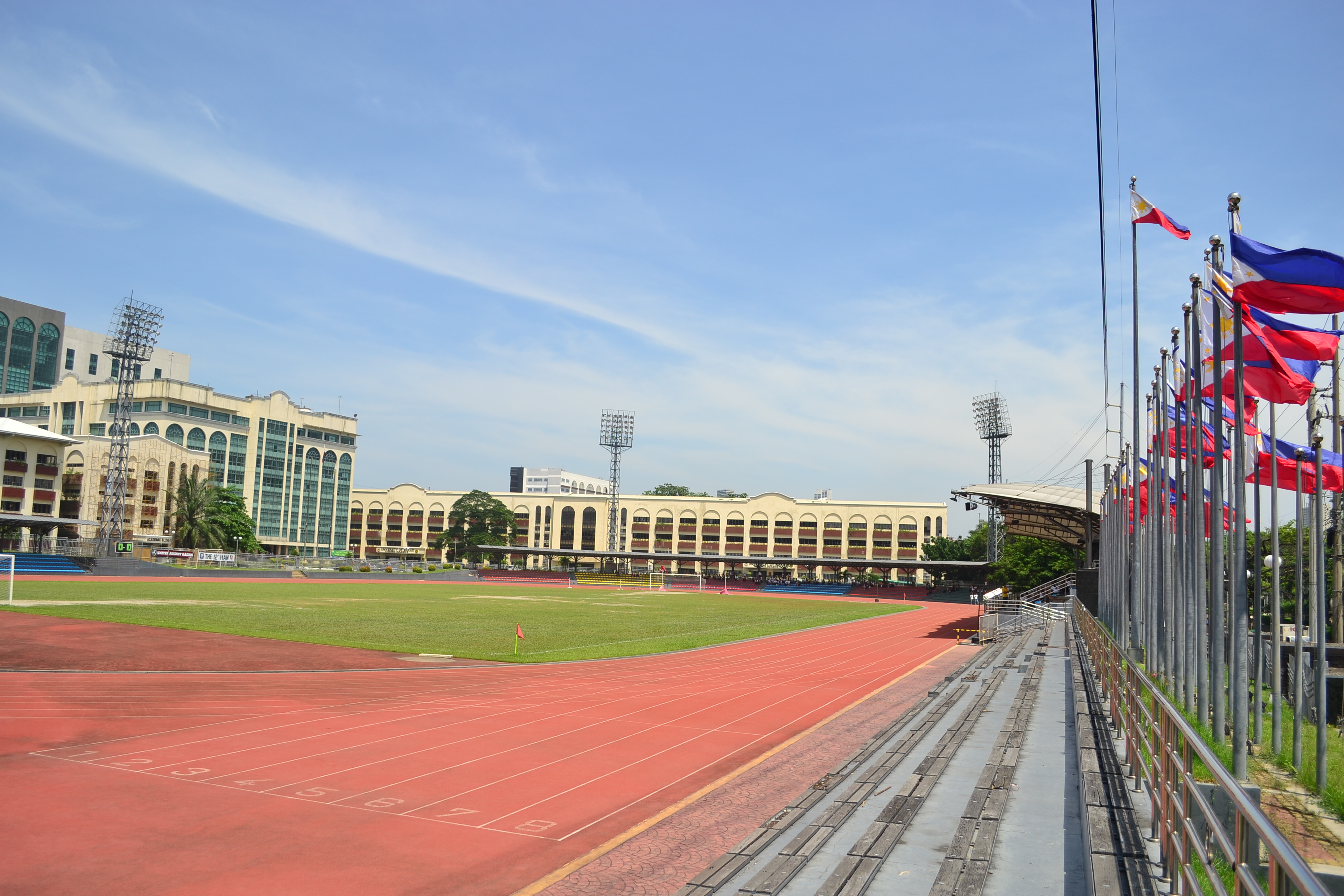 University of Makati Stadium